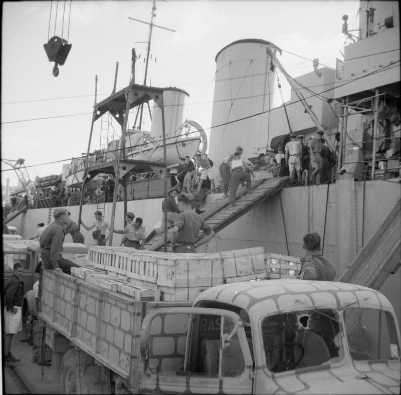 The British Army on Malta 1942 Crates of powdered milk and foodstuffs being unloaded onto lorries from HMS WELSHMAN, 30 July 1942.